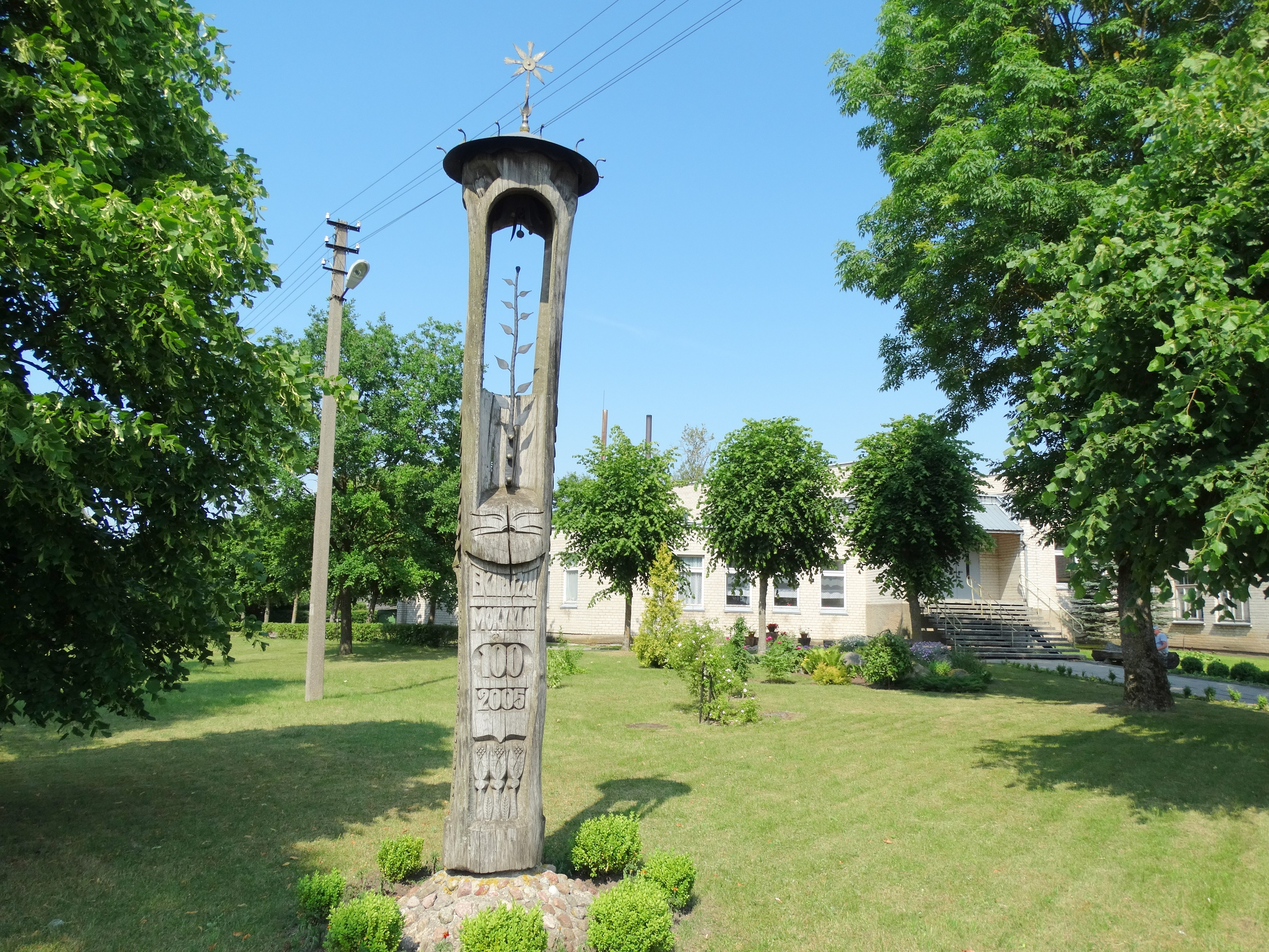 School in Eigirdžiai, Telšiai district, Lithuania